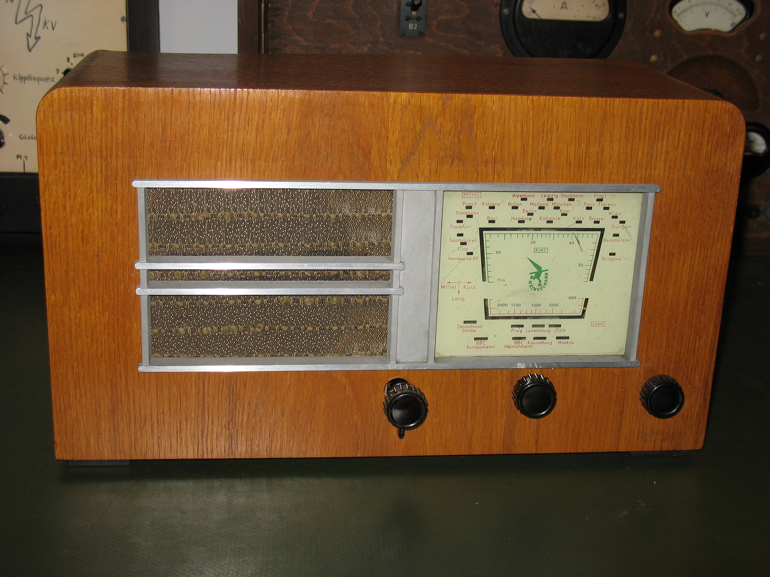 Grundig Heinzelmann Receiver ca. 1947